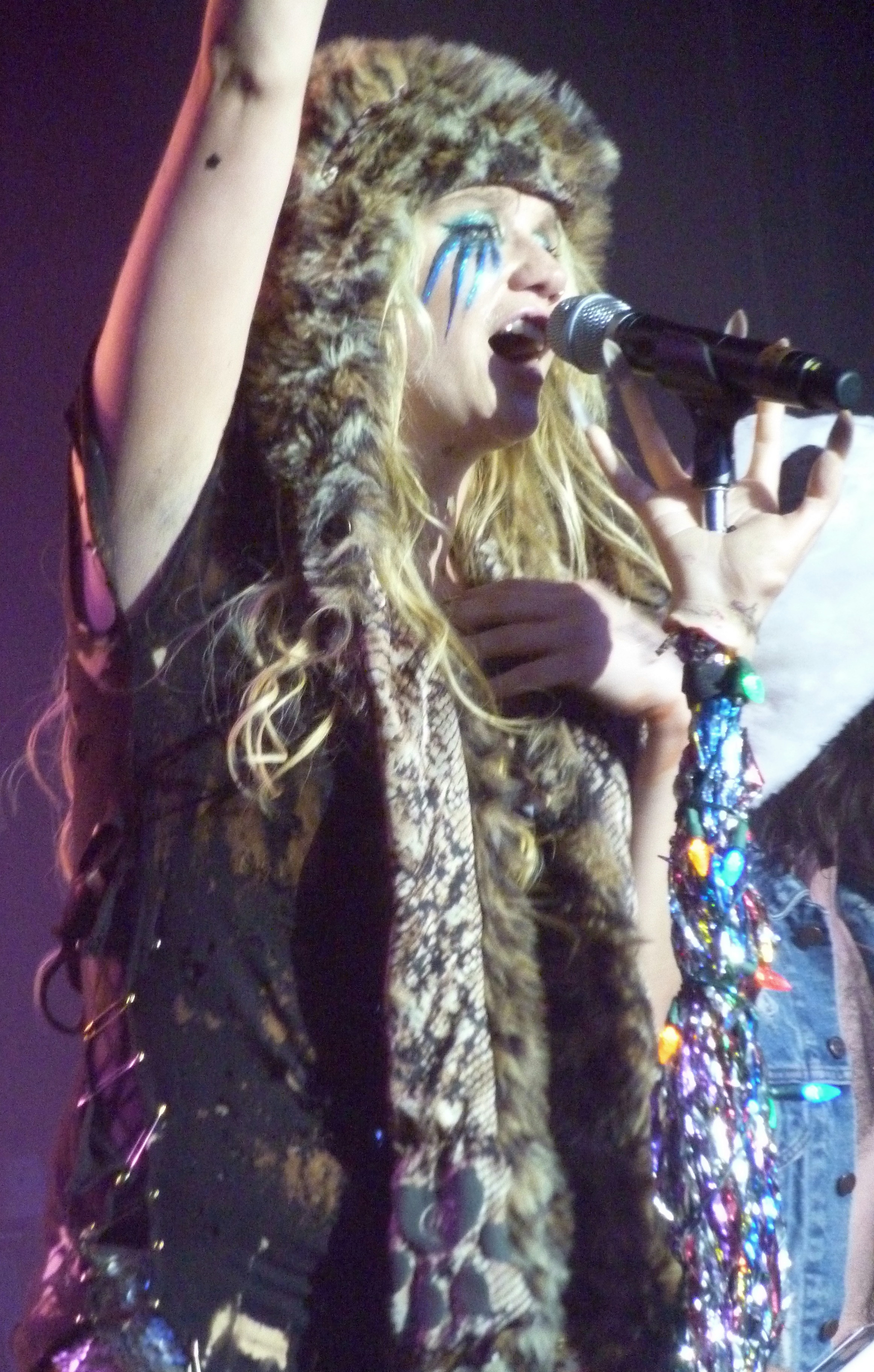 Kesha performing at Le Trianon in Paris in December 2010.